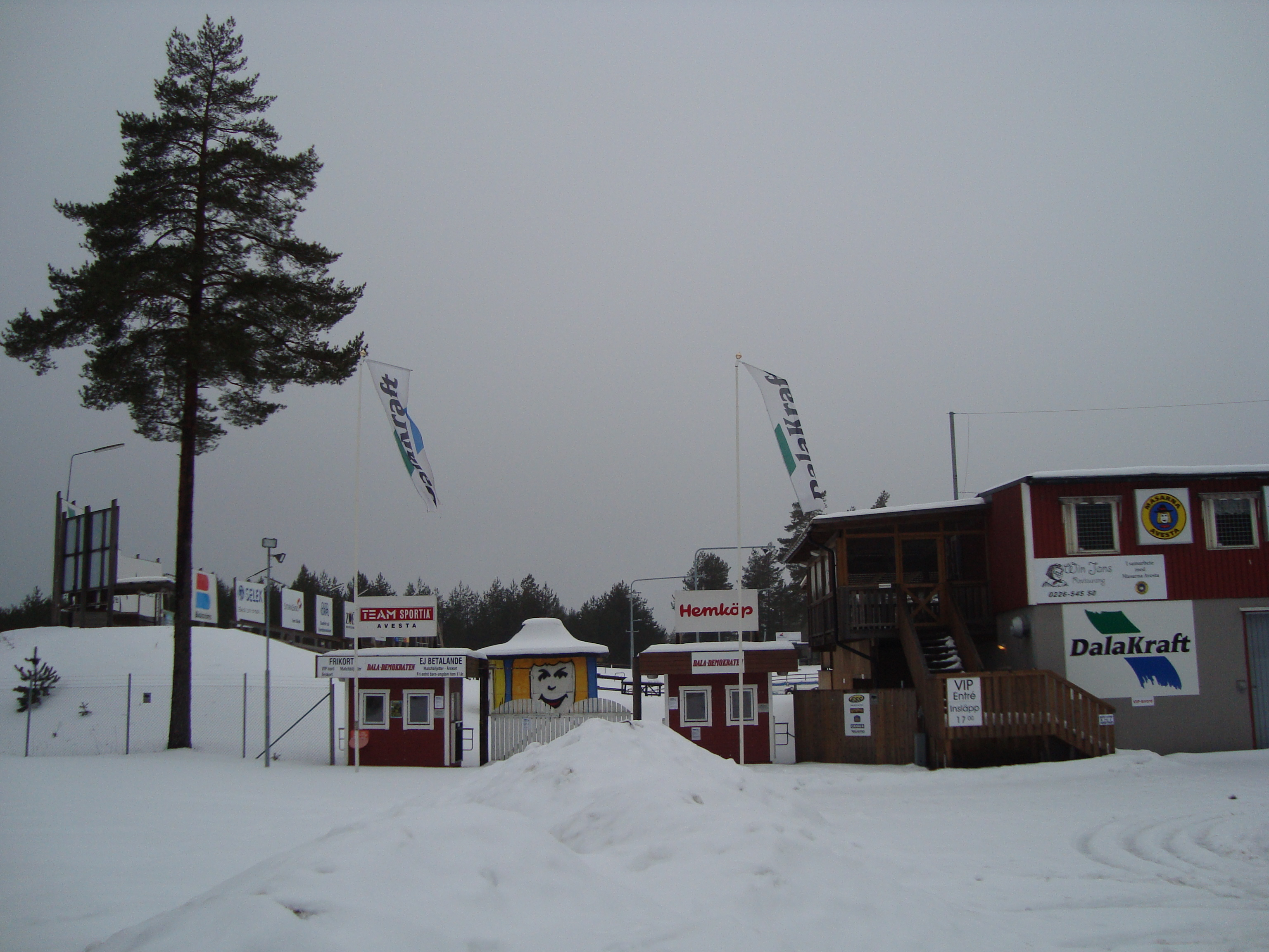 Arena Avesta, a speedway arena in Avesta, Sweden.